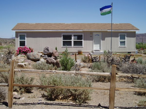 Government House the official presidential residence and administrative building of the Republic of Molossia.